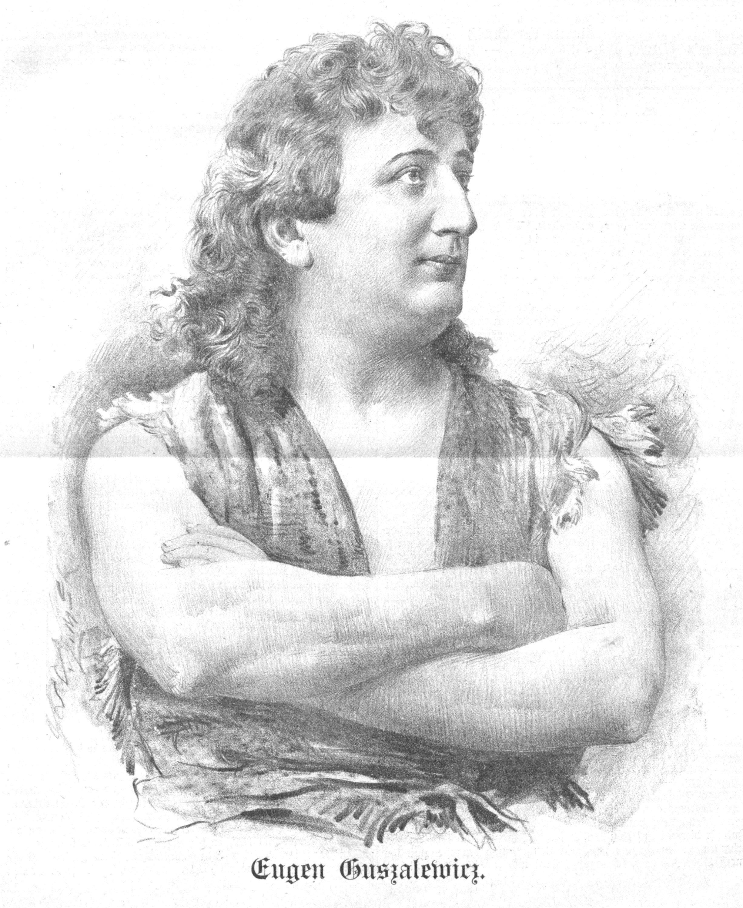 Portrait of Eugen Guszalewicz (1867-1907), Austrian opera singer.